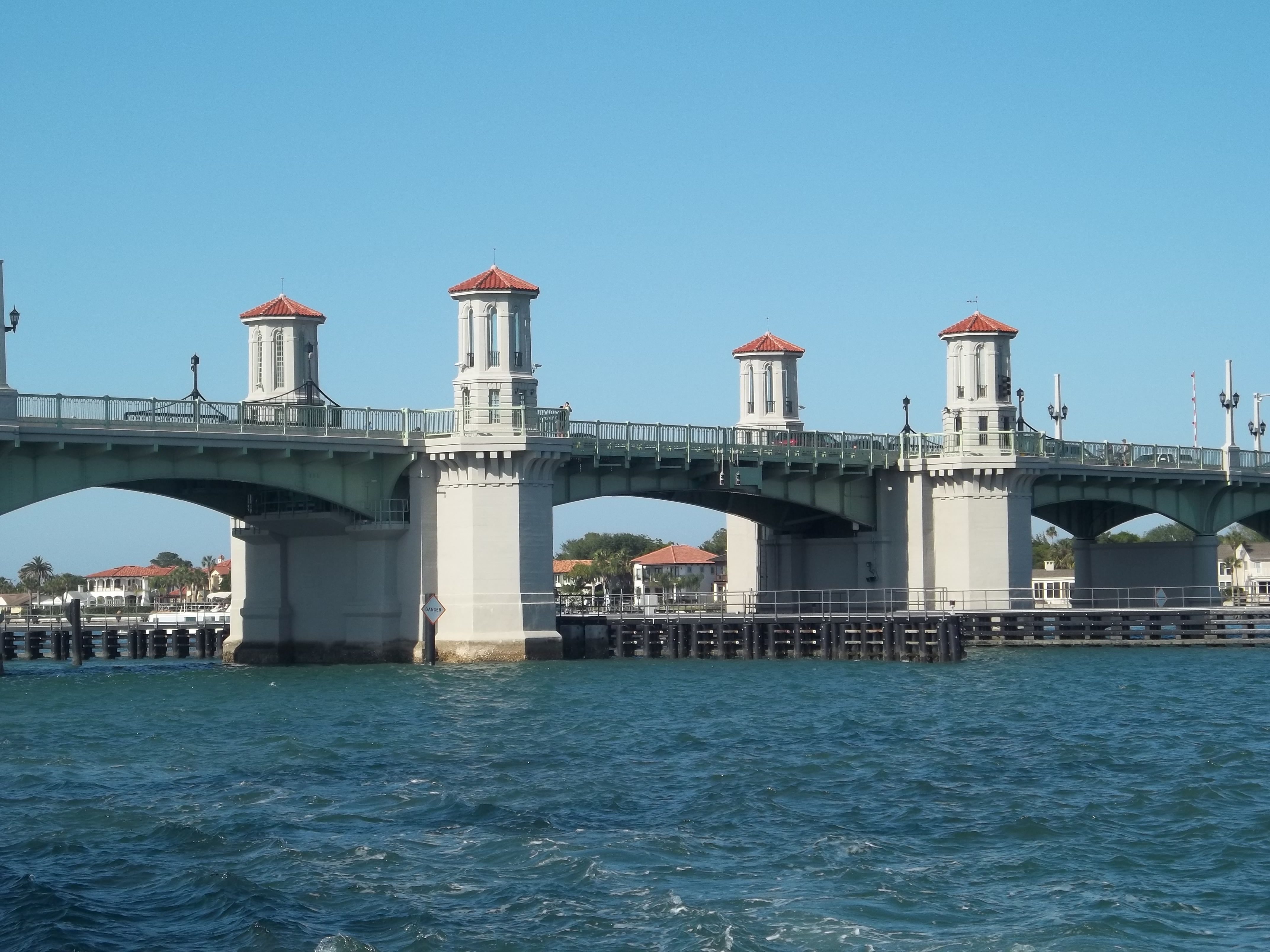 St. Augustine, Florida: Bridge of Lions